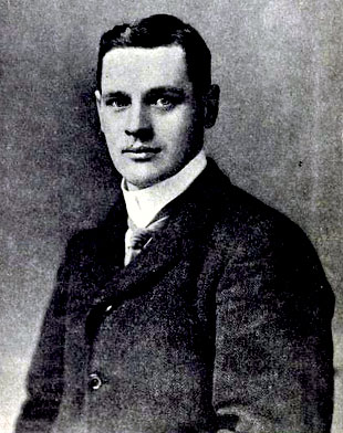 Photograph of John Cameron, Footballer born in 1872.